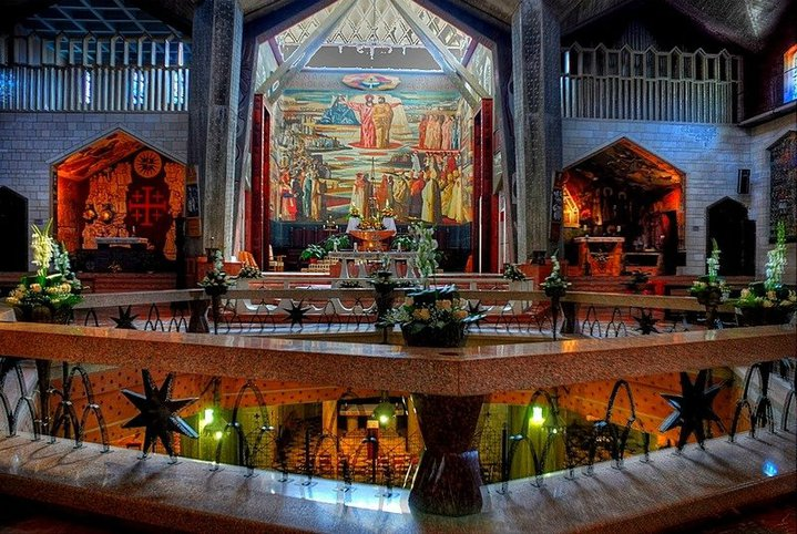 Religion in Israel